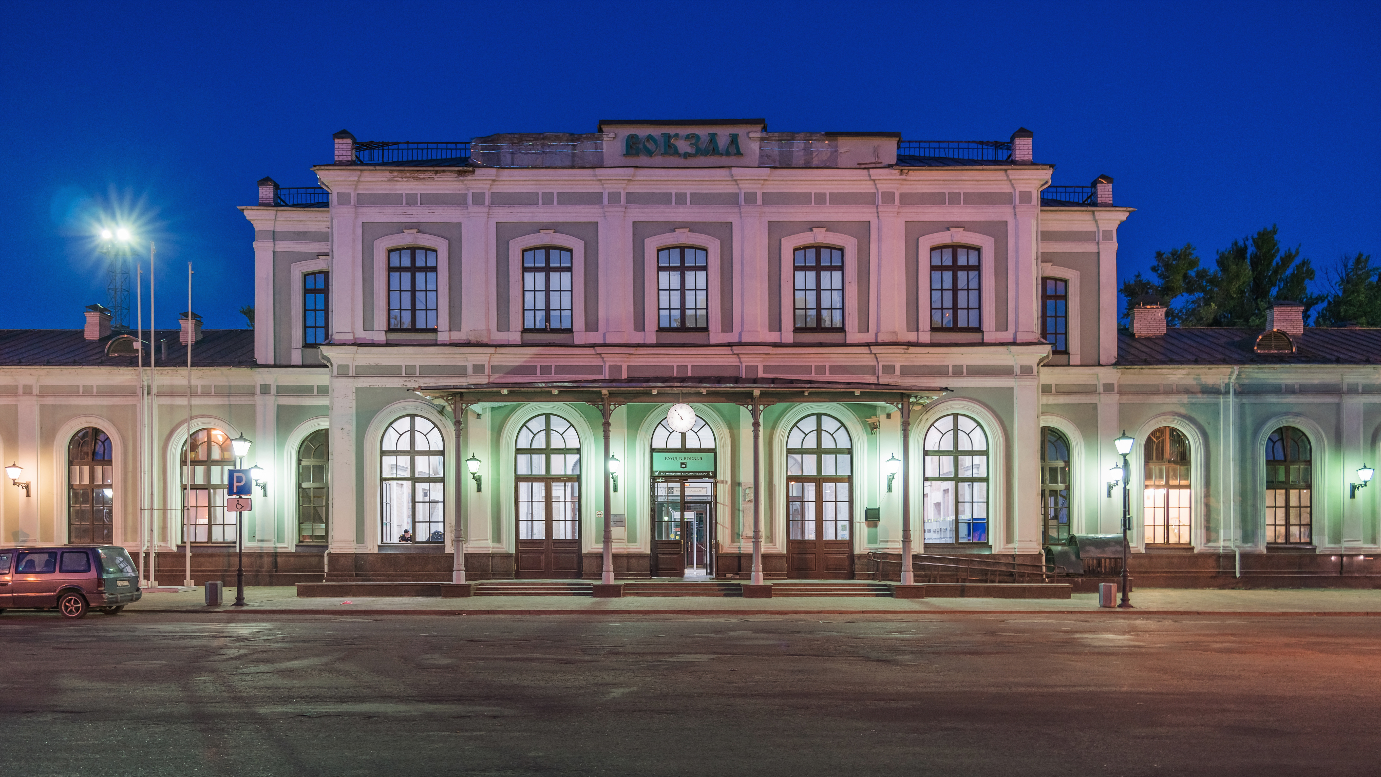 Blue hour at the railway station in Pskov, Russia